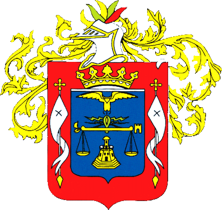 Coats of Arms of Piura